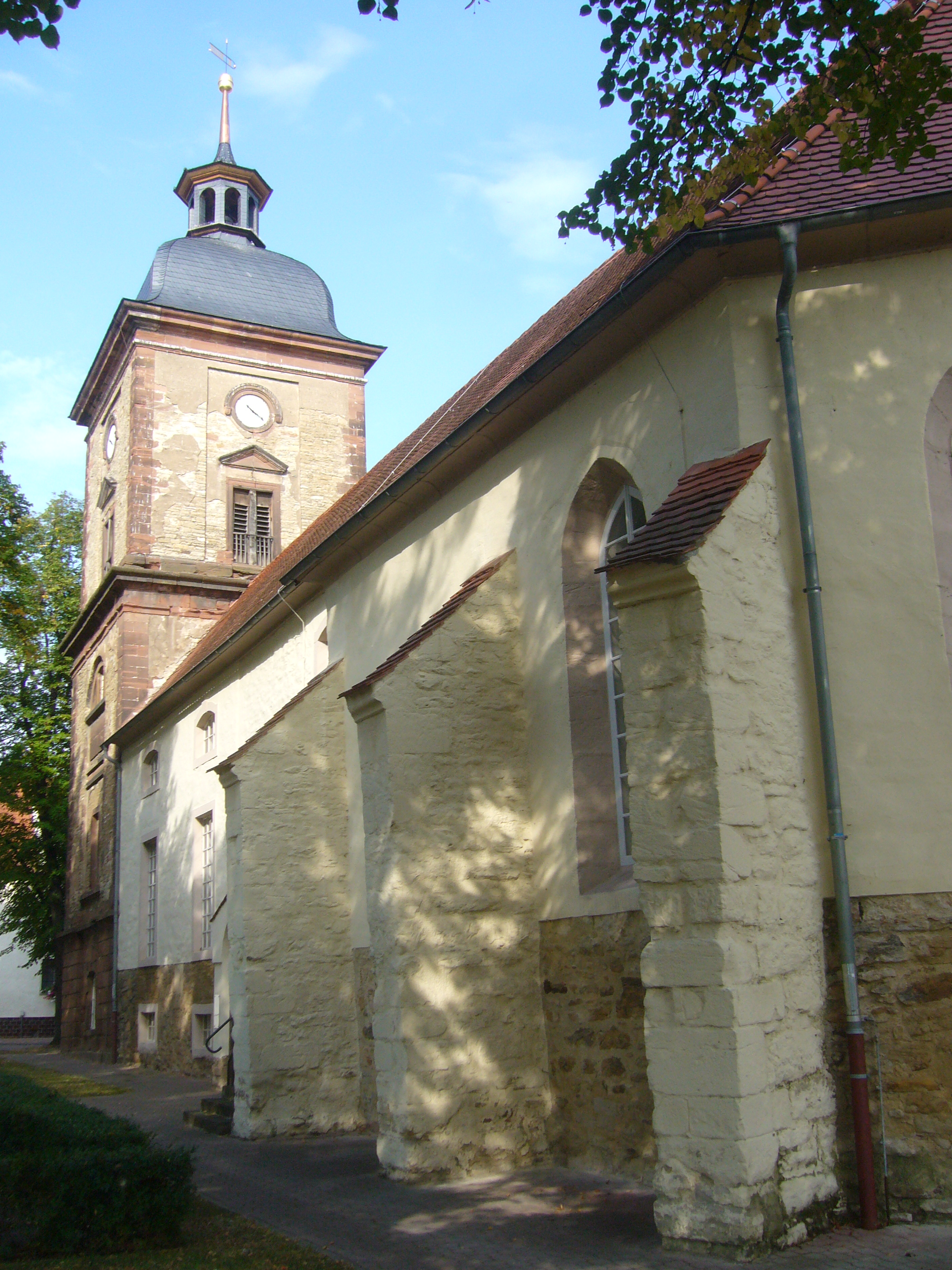 Church in Schönewerda, Roßleben, Thuringia, Germany